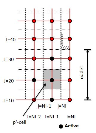 pressure correction cell at an exit boundary